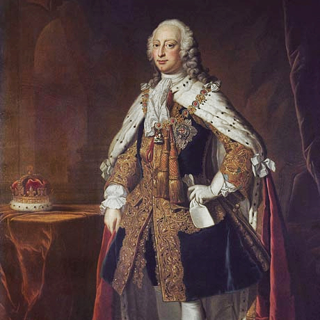 A painting of Frederick, Prince of Wales.